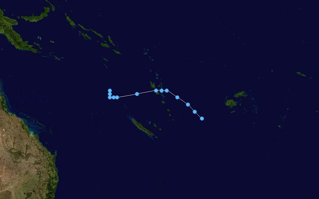 Tropical Depression 04F (2008) track map. Saffir-Simpson Hurricane Scale TD TS 1 2 3 4 5